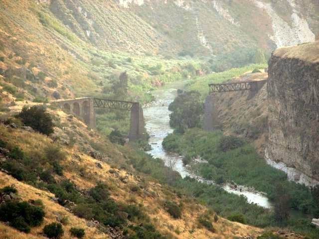 The Category:Yarmouk Railway Bridge ruins over the Yarmouk River — destroyed in the Jewish Night of the Bridges operation. Operation Markolet (known as Night of the Bridges) was a Haganah venture on the nights of 16th & 17th of June 1946, in the British Mandate of Palestine. Its aim was to destroy eleven bridges linking Mandated Palestine to the neighboring countries of Lebanon, Syria, Jordan, and Egypt, in order to immobilize its transportation.